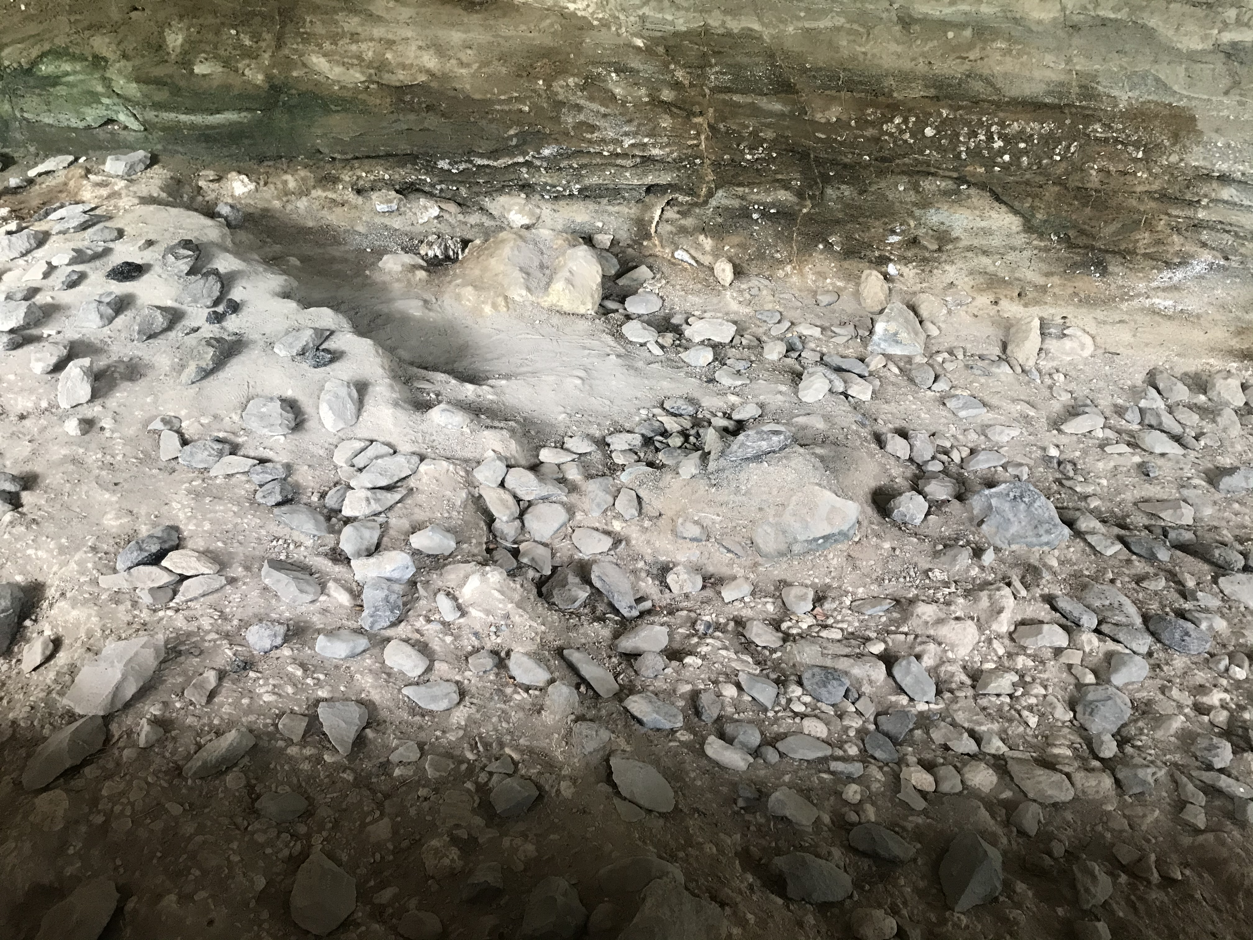 A photograph of the upper pre-historic archeological site at the Kariandusi Museum in Kenya. The photograph is of the extensive collection of Acheulean hand-axes excavated by Louis Leakey in 1928. The hand-axes are from the Lower Paleolithic era and are made from both obsidian and trachyte.